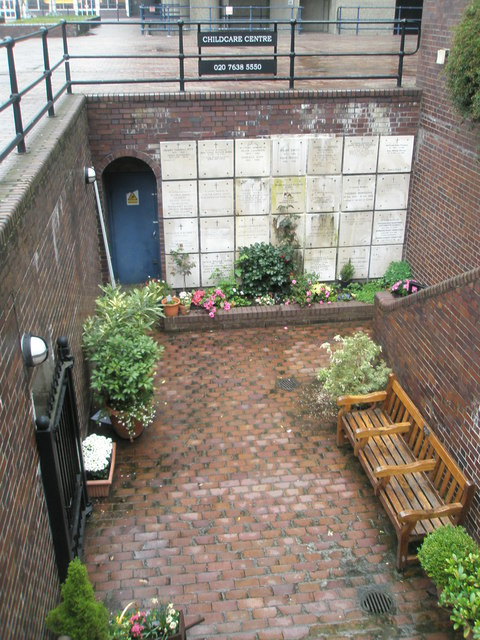 Sunken garden at St Giles Cripplegate Church Hall Taken on the Pepys Walk, a circular walk around the City of London and the South bank starting and finishing at St Paul's Cathedral.